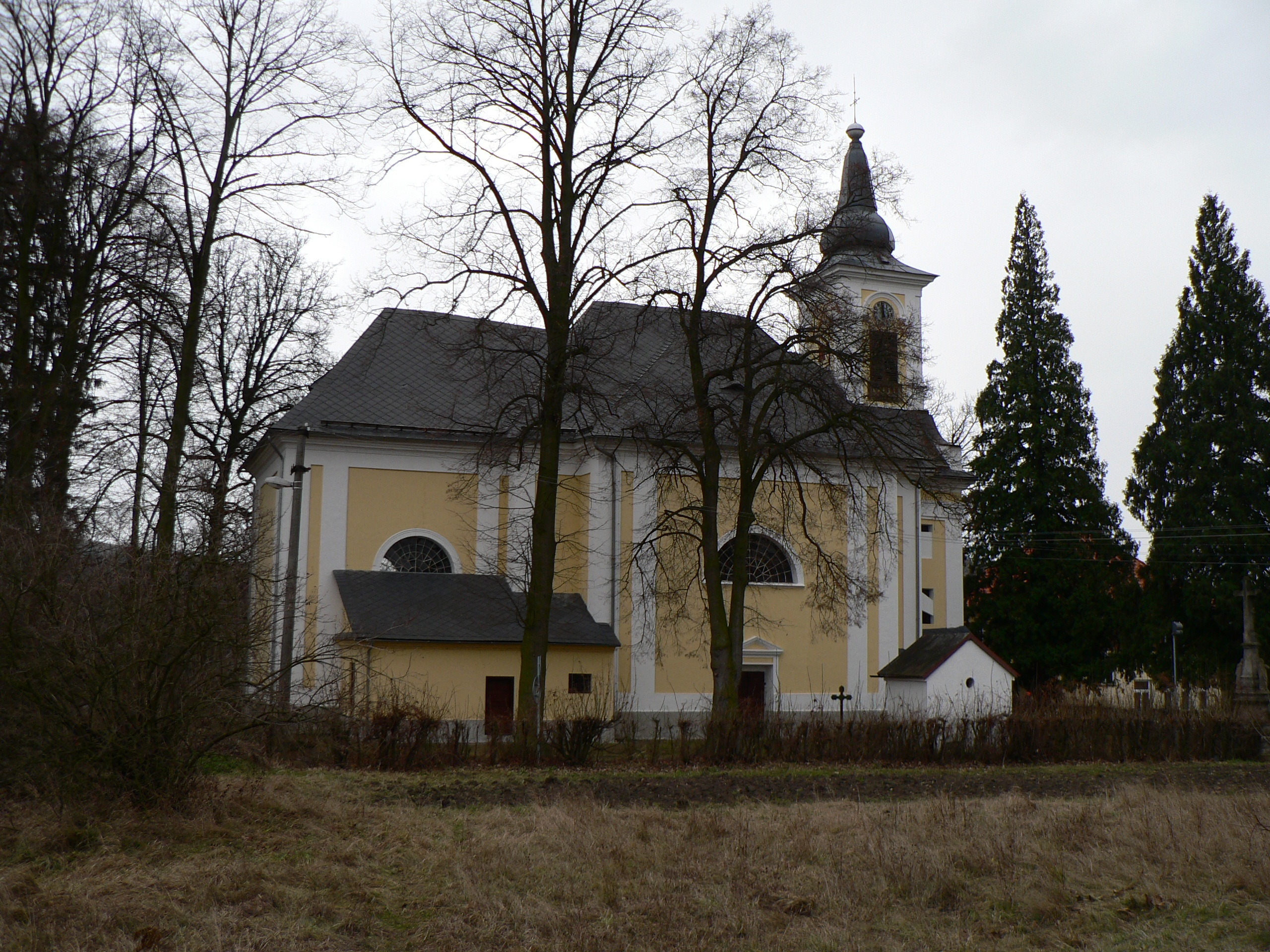 Church of Saint Martin in Rohle, Šumperk District. Czech Republic.